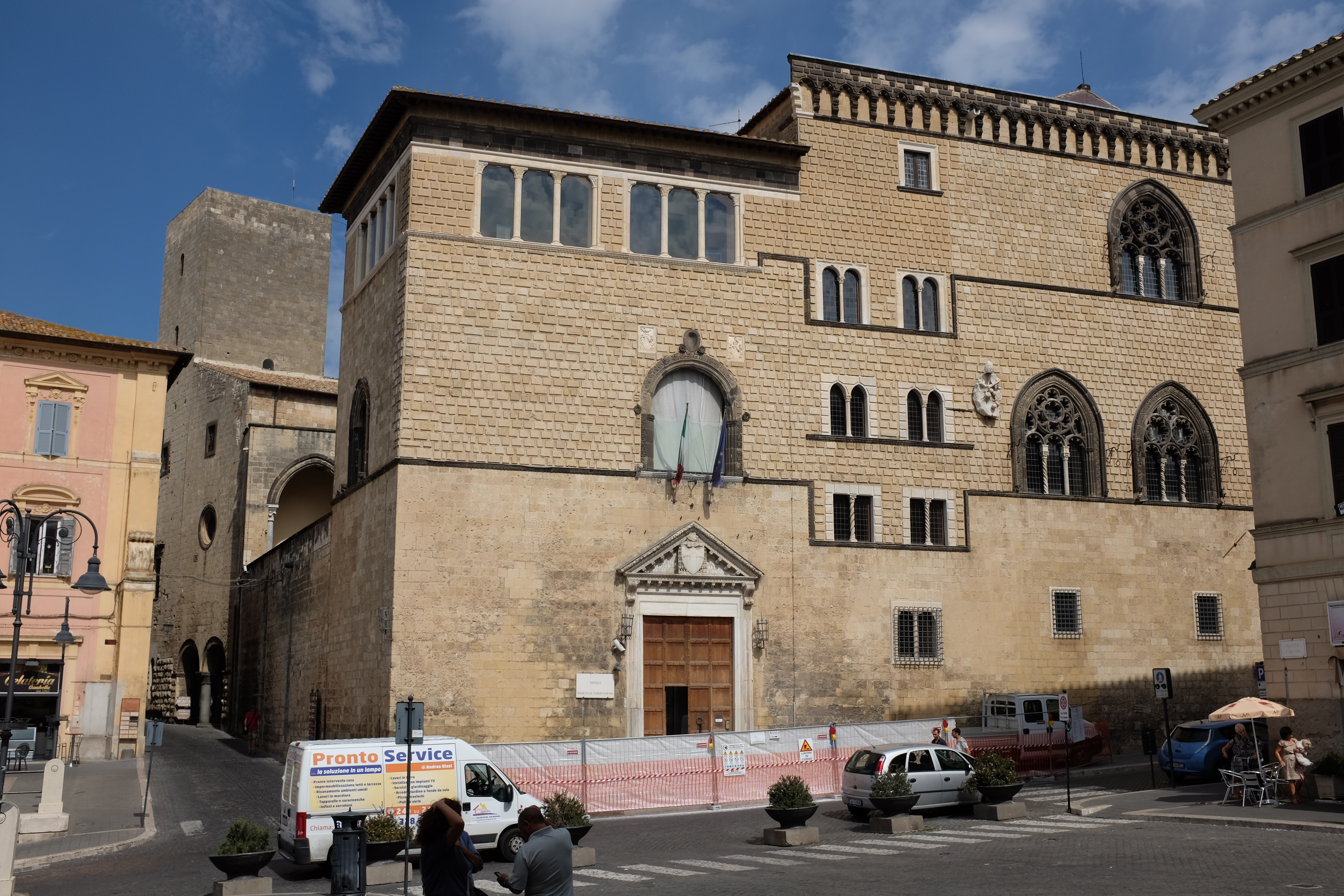 The Palazzo Vitelleschi in Tarquinia now houses the Tarquinia National Museum.